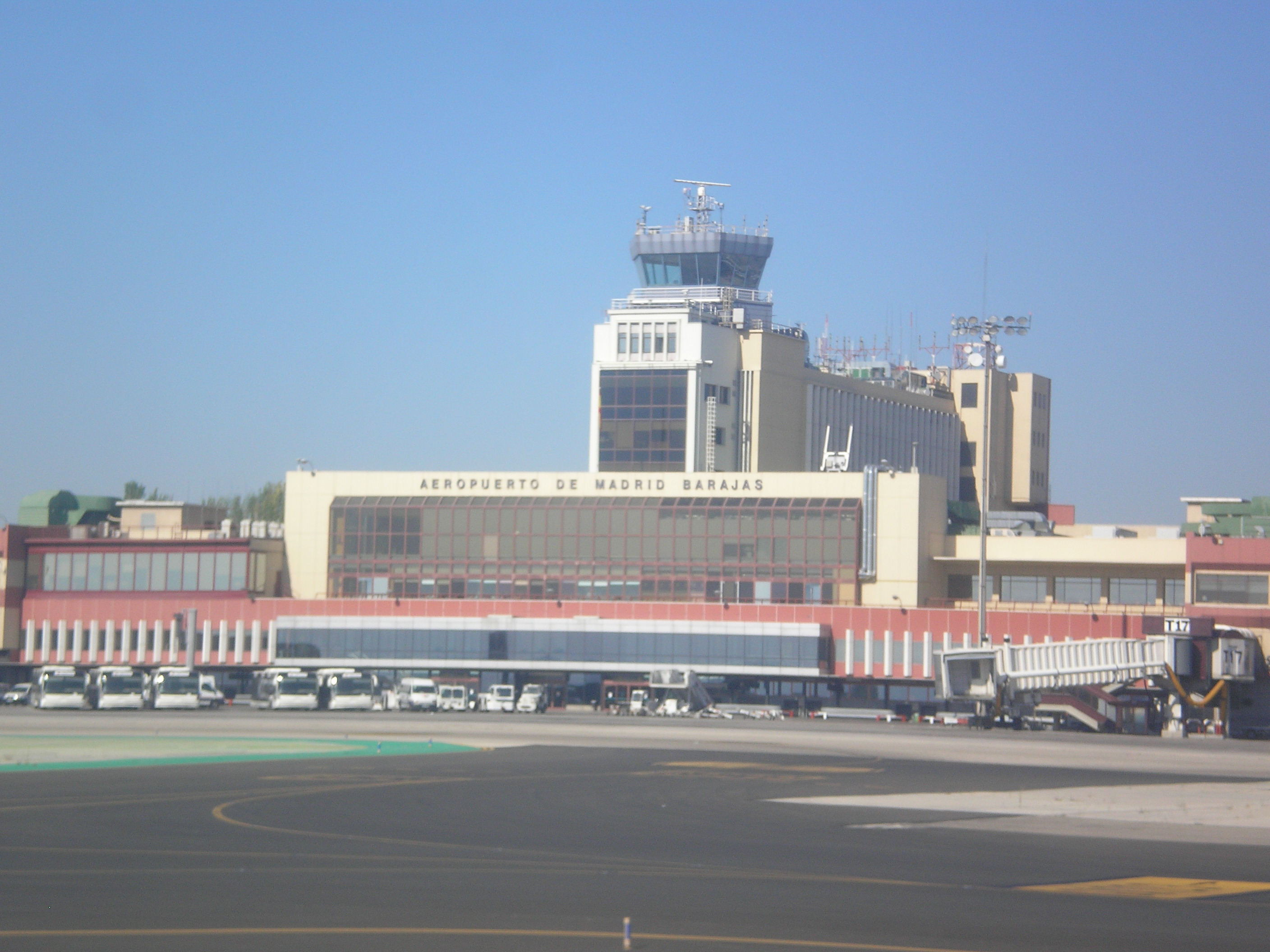 Madrid-Barajas Airport.